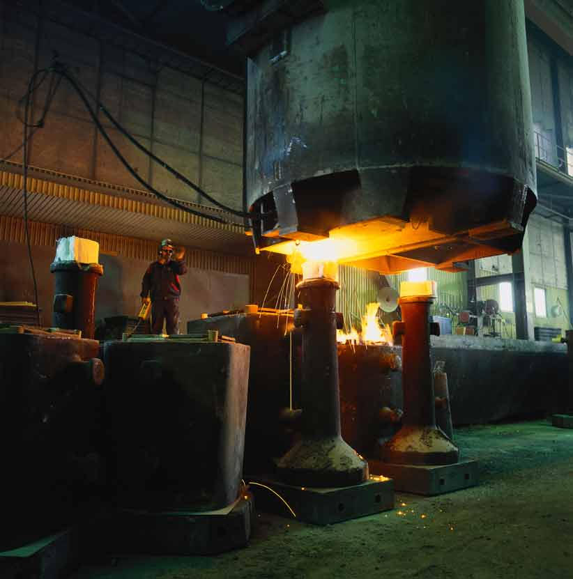 Casting of tool steel ingots at Uddeholms AB, Hagfors, Sweden.